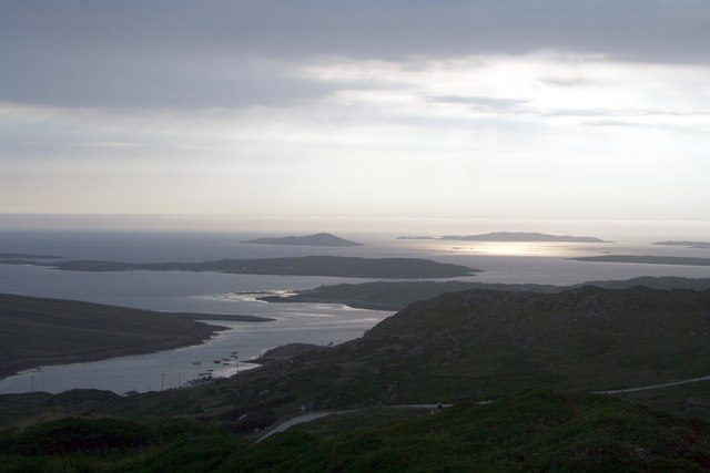 The Sky Road, looking west A drive westwards from Clifden takes you along the coastal road around this peninsula. It can be somewhat vertiginous for those of a nervous disposition, but the views are spectacular. To the west lie the islands of Talbot (or Turbot), Eesal and Inishturk.